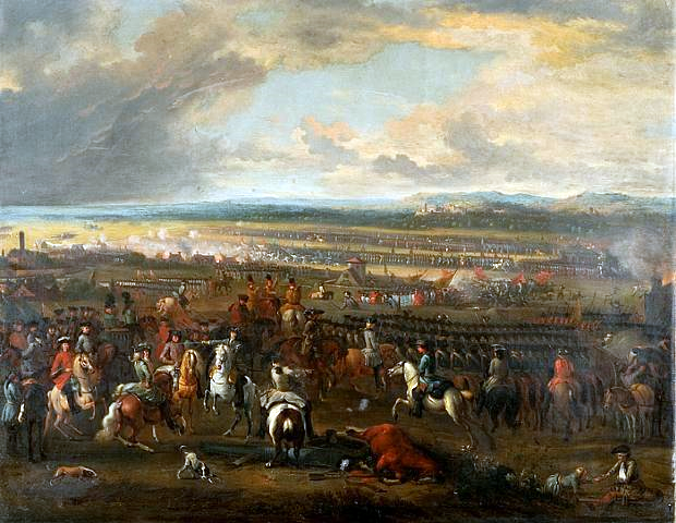 Battle of Chiari.